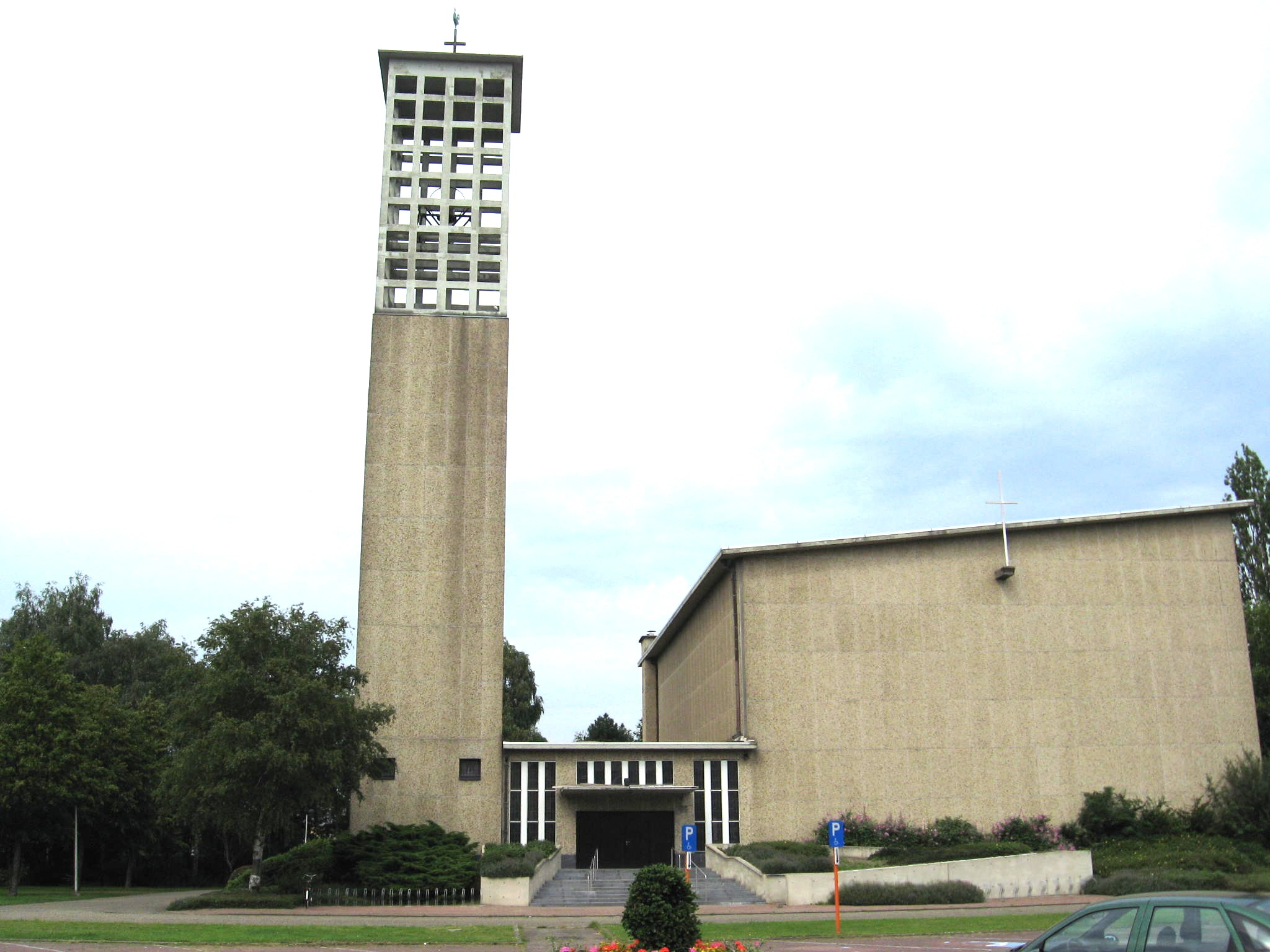 Church of Our Lady of Banneux in Hasselt, Limburg, Belgium